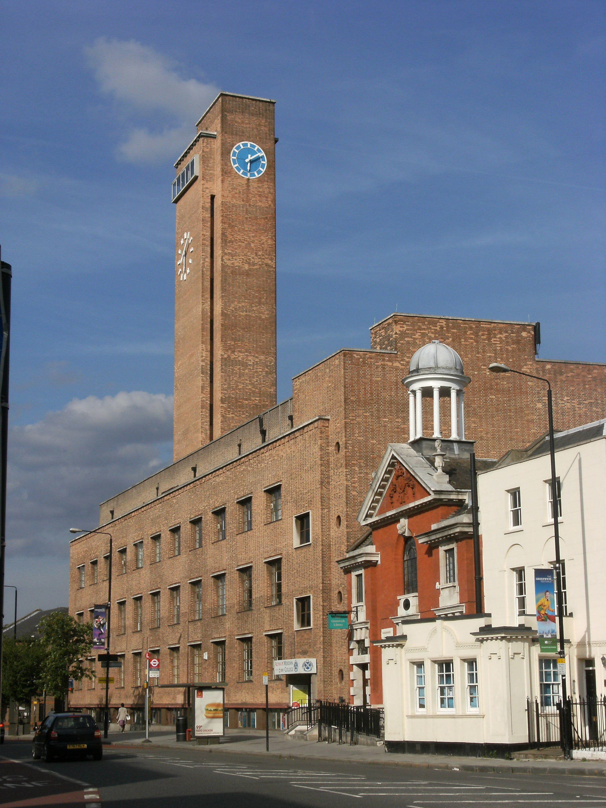 2011-06-07 in London. Meridian House, Royal Hill London SE10 8RG